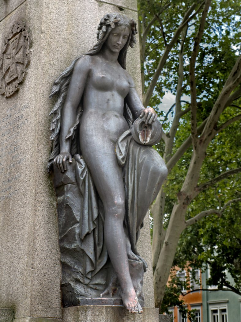 Kehl am Rhein (Germany), Sculptor Franz Xaver Reich (1815–1881) : Mother Kinzig, photo 2010